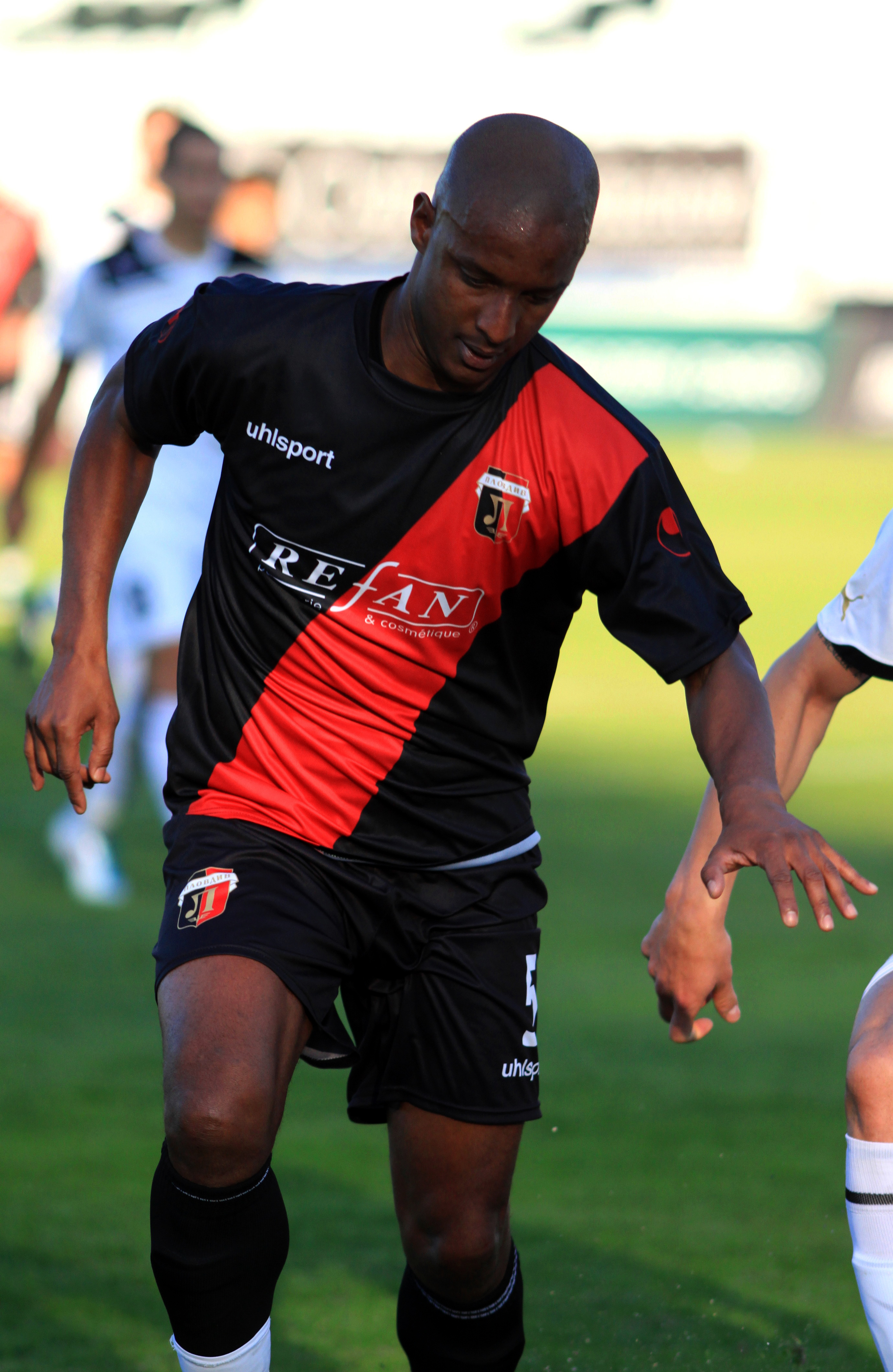 Youness Bengelloun (born 3 January 1983 in Paris) is a French professional footballer who plays for PFC Lokomotiv Plovdiv in Bulgaria.